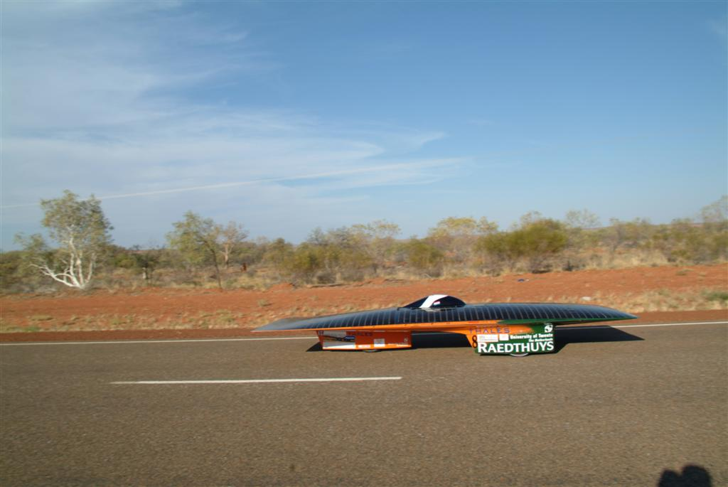 This picture has been made during the Panasonic World Solar Challenge by M. Kok - Raedthuys Group. This photo is allowed to use with the note "Photo: Raedthuys Group". This photo is added by a member of the Raedthuys Solar Team, the SolUTra, shown on this photo, is IP of the Raedthuys Solar Team.